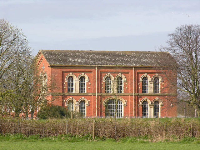 Pumping House, Cottingham, East Riding of Yorkshire, England.Finely built pumping house at the Cottingham water extraction plant north of Millhouse Woods Lane, but seen here looking westwards from Dunswell Road.